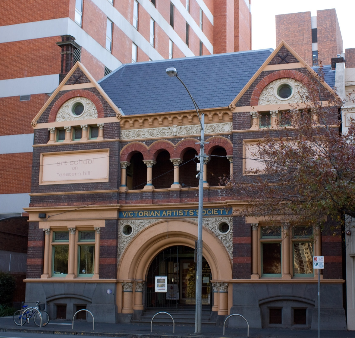 The Victorian Artists Society is architecturally significant as an early expression of the American Romanesque style in Victoria. The style in Australia was strongly influenced by prominent American architects, notably Sullivan and Richardson. This new style represented a shift from the traditional European architectural influences of the Classical and Gothic styles, and was a conscious identification to the New World. It was significant as one approach in the search for a national style of architecture appropriate to Australia. The Victorian Artists Society has a skilfully executed decorative scheme with decorative mouldings, half columns and foliated panels. It is one of the few surviving works of architect Richard Speight. The Victorian Artists Society is socially significant as an academy for painters and sculptors. Many of Victoria's prominent artists have been associated with the Society and the building over a continuous period of more than 120 years. Prominent members included Chevalier, von Guerard, Buvelot, Streeton, Roberts and Conder. (Source: Heritage Victoria)